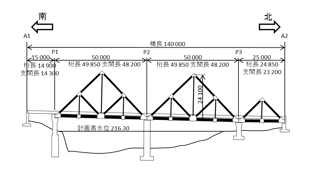 Schematic diagram of Karikobouzu bridge, Nishimera, Miyazaki, Japan, over Hitotsuse river. The bridge has the longest span as a wooden road bridge in Japan.